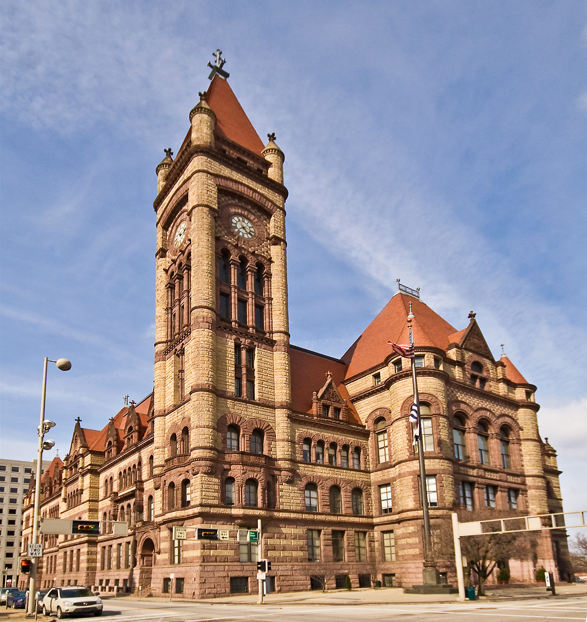 Cincinnati City Hall, Richardsonian Romanesque style, designed by Samuel Hannaford. Photo by Greg Hume Cincinnati, OH